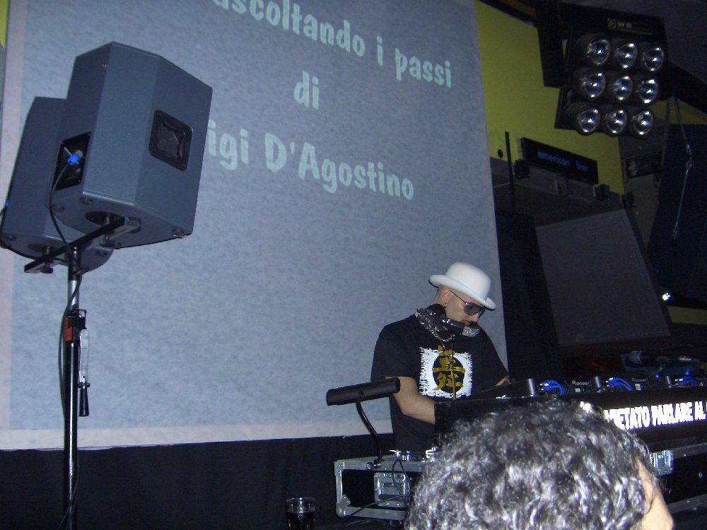 Gigi D'Agostino in Rimini, Summer 2005. (author: Sárközi Nóra)